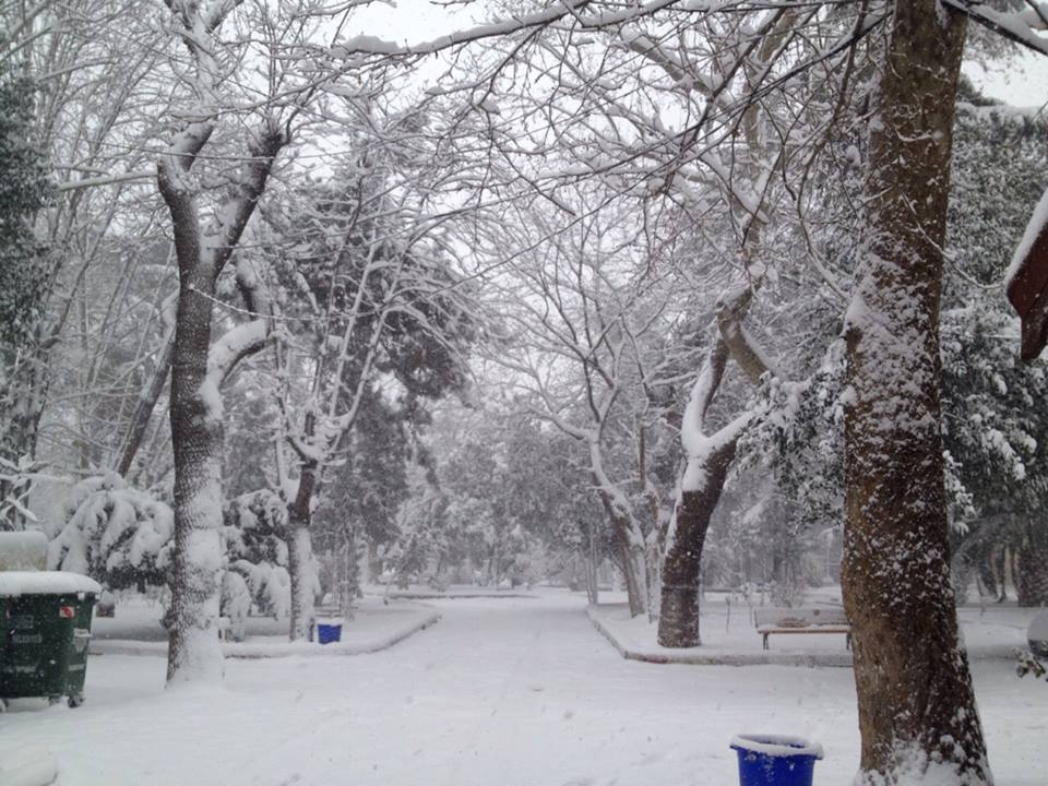 Okulun Bahçesi